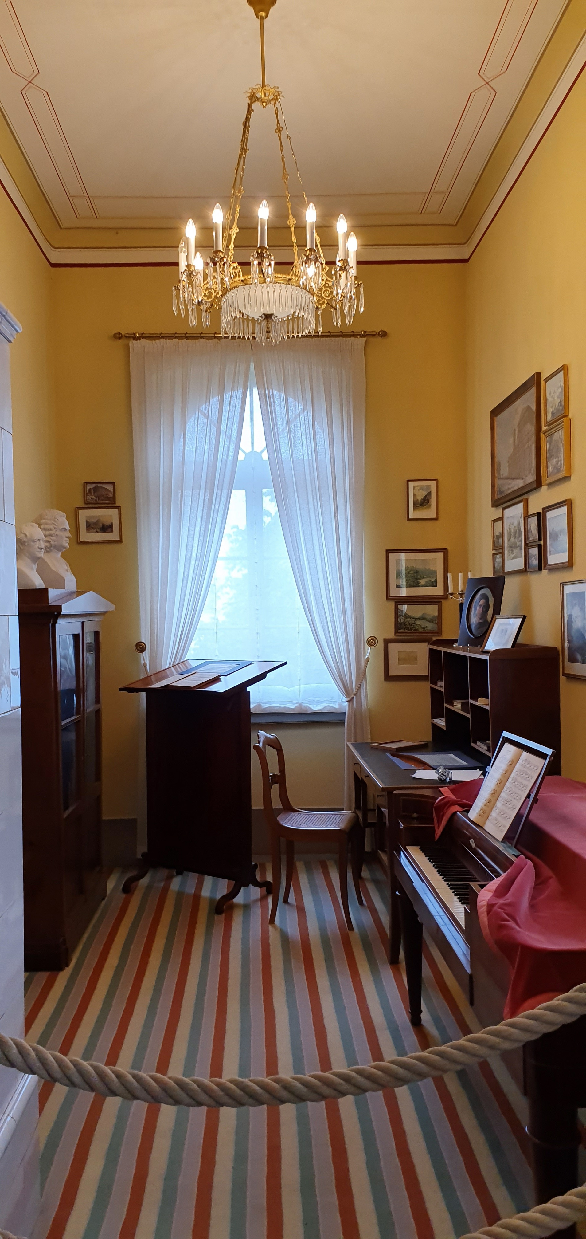 Felix Mendelssohn Leipzig study